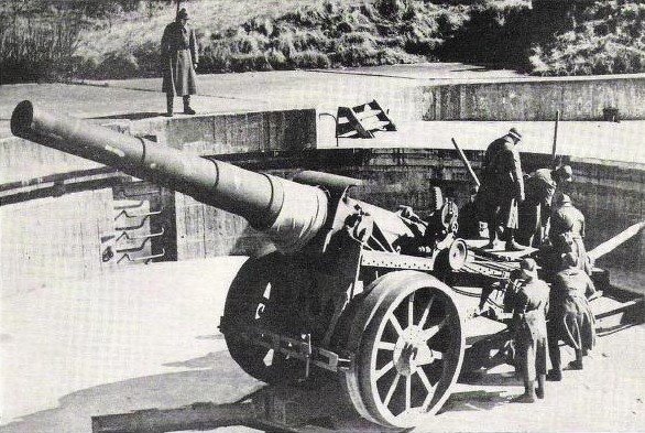 Belgian soldiers operate a coastal gun, circa World Wars